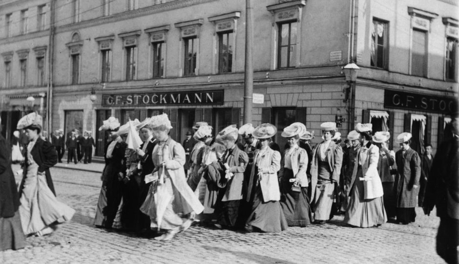 Group of women suffragists c.1900 in Helsikni next to G.F. Stockmann's department store